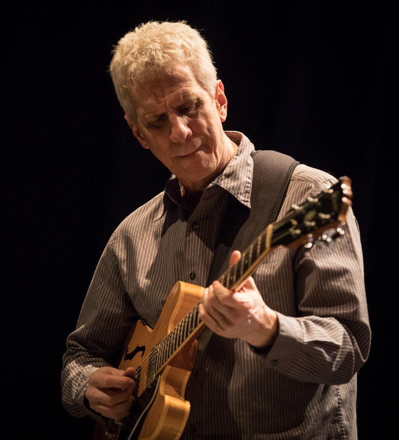 John Patitucci Electric Guitar Quartet at the stage of Cosmopolite. The concert took place on 12. May 2017 in Oslo. Lineup: John Patitucci (bass guitar) Adam Rogers (guitar) Steve Cardenas (guitar) Nate Smith (drums)